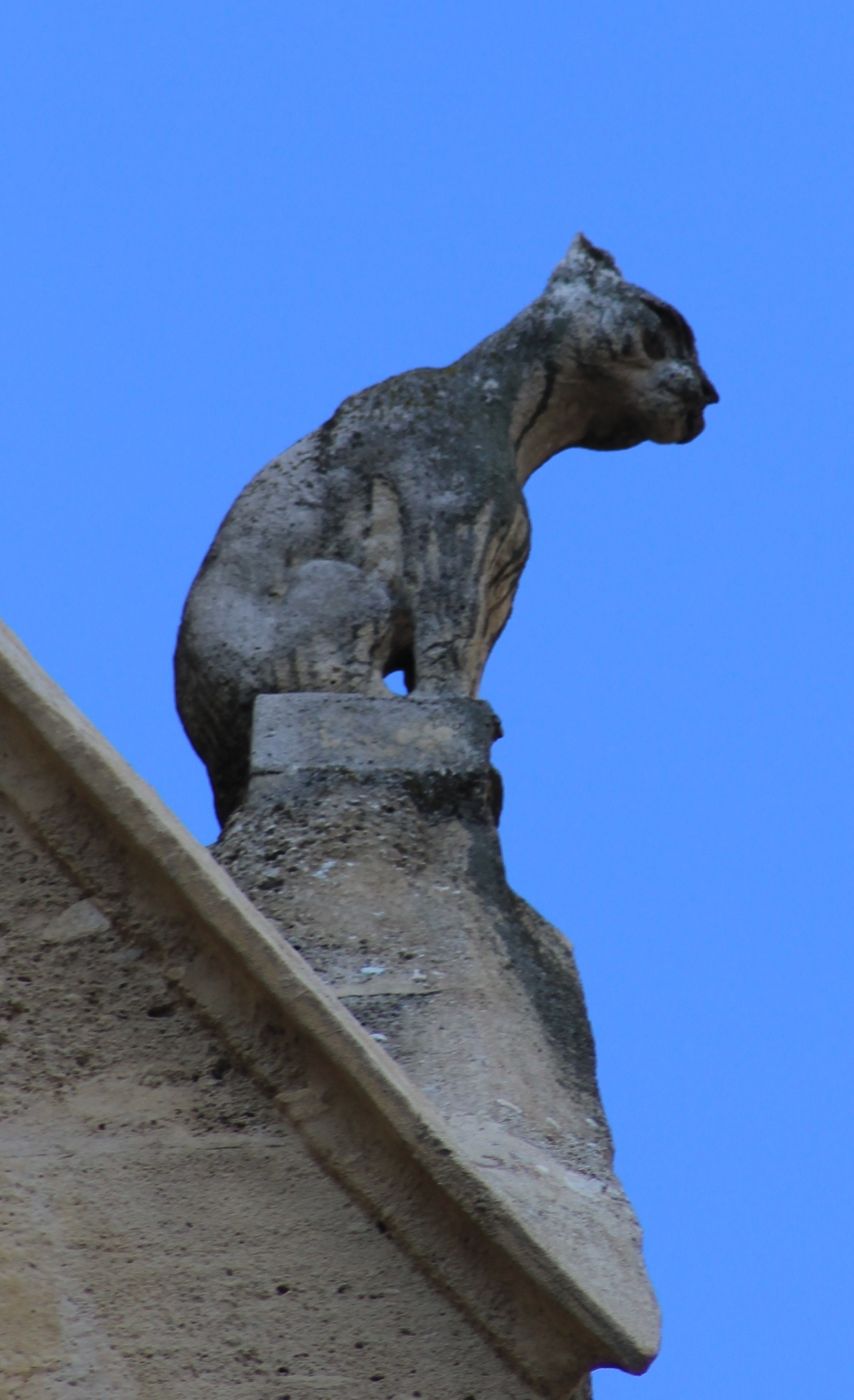 Parish church St. Jakob in Villach - detail